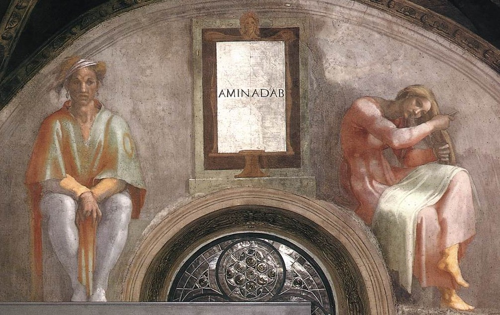 Sistine Chapel, fresco Michelangelo, one of Ancestors of Christ series